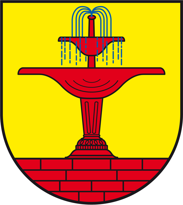 Coat of arms of the GErman municipality of Gutenborn